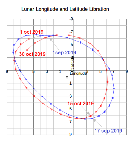 Moon Libration 1 Sep to 30 Oct 2019